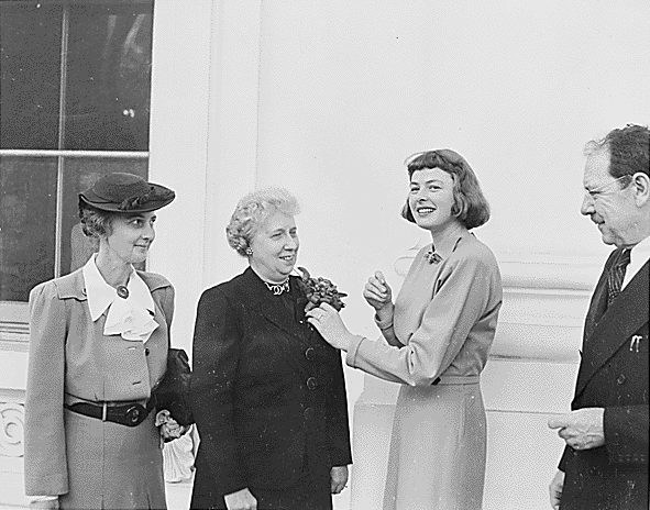 Photograph of First Lady Bess Truman receiving a community chest award and corsage from actress Ingrid Bergman, who was accompanied to the White House by Mrs. Waldron Faulkner, Joseph Steele, and Leigh Ore.